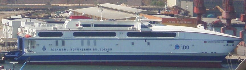 Ferry Adnan Menderes (IMO 9179933), docked at Bandirma on 2009-08-17